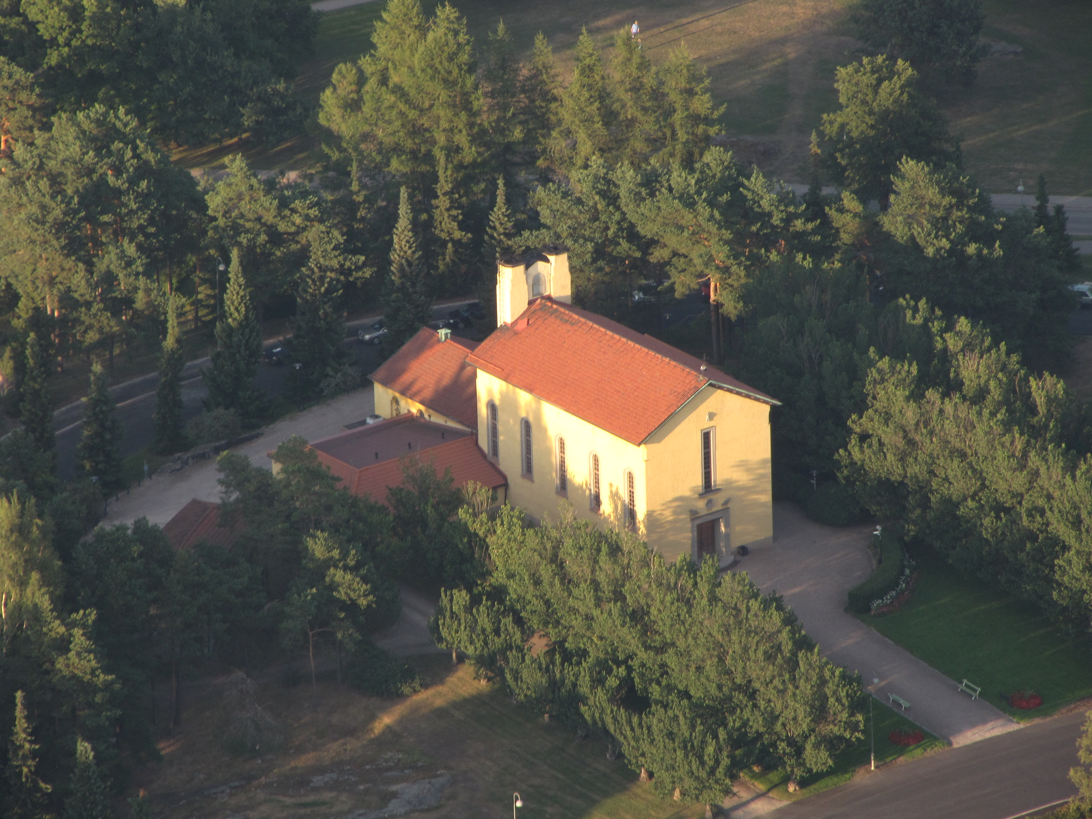 Hietaniemi crematory photographed from a hot air balloon.